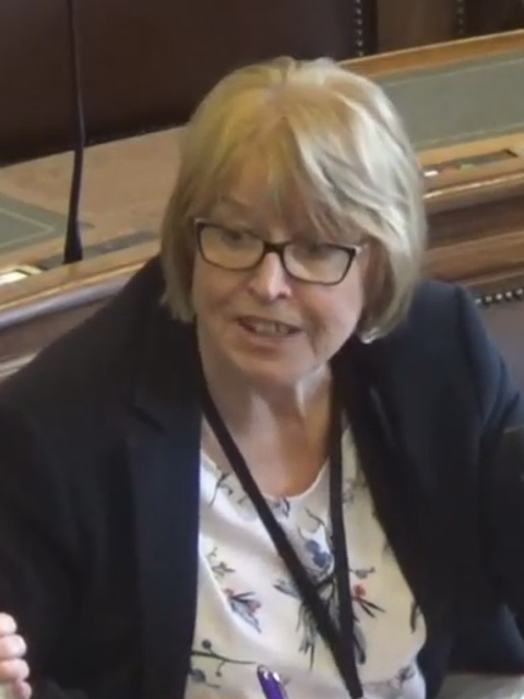 Video Capture of Cllr Yvonne Nolan.